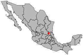 Location of Ciudad Valles — state of San Luis Potosí, Northeastern Mexico.